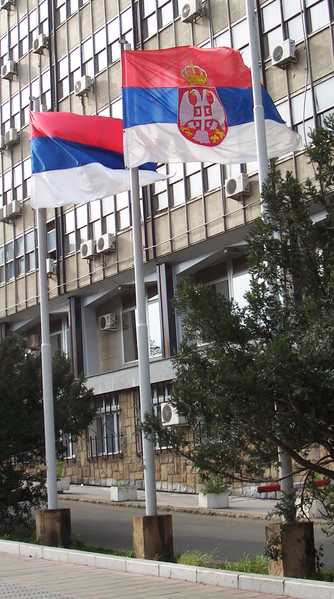 Flags of Serbia in front of Nemanjina 20.